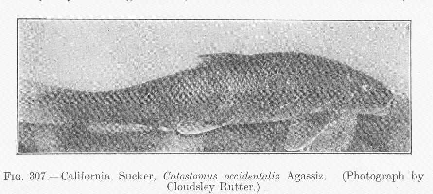 California Sucker, Catostomus occidentalis Agassiz Subject: Catostomidae Tag: Fish